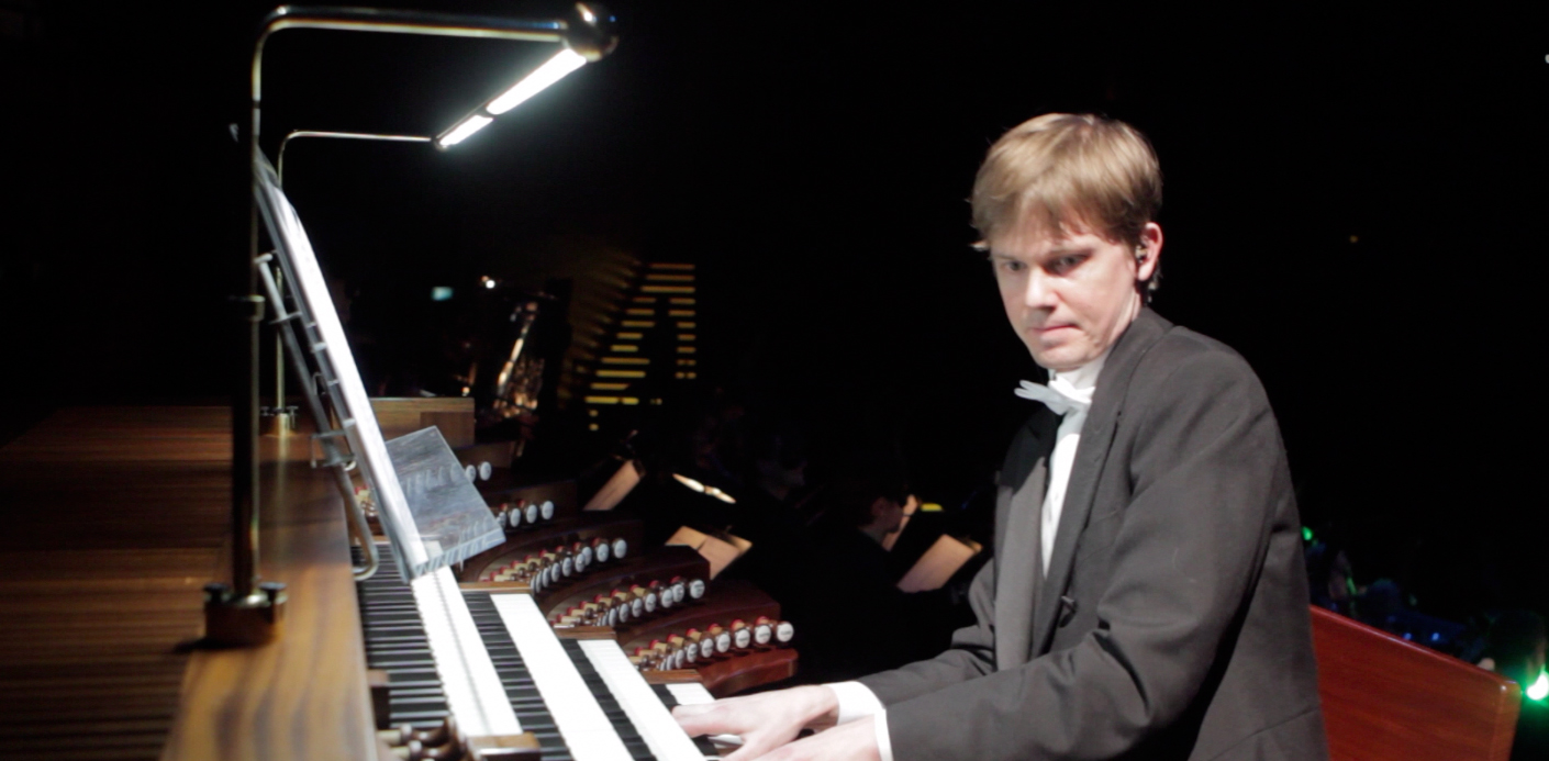 Composer and organist Frederik Magle at the pipe organ console. Still photo from a video shot by Baltazar Hertel in the Copenhagen Concert Hall, September 10, 2011.